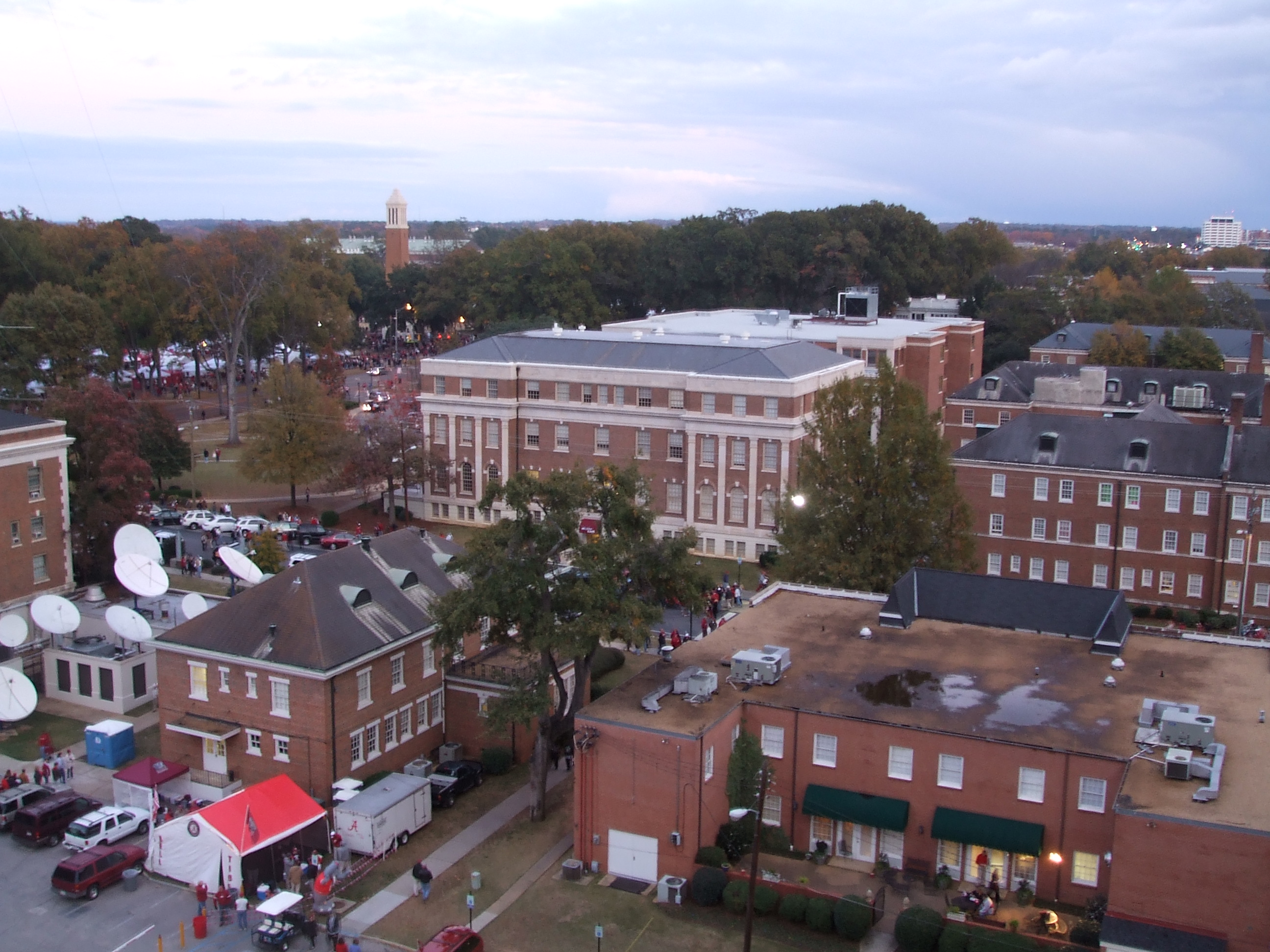 View of a portion of the University of Alabama campus in Tuscaloosa, Alabama, United States. Taken from the the north end zone of Bryant-Denny Stadium. In the foreground are Reese Phifer Hall (far left), Temple Tutwiler Hall (left), and Alpha Omicron Pi (right); at center are Doster Hall and the Rose Administration Building; behind them (center right) are Harris Hall, Adams Hall, and the East Annex; in the background is the wooded portion of The Quad with Denny Chimes.